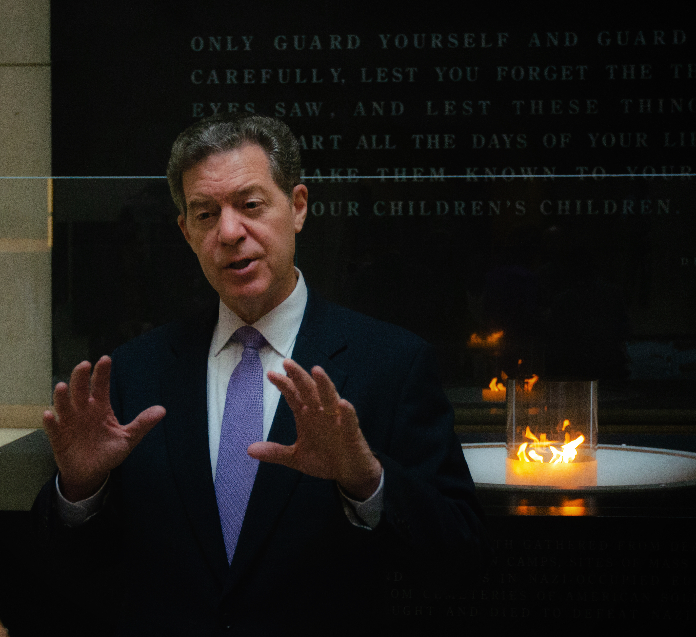 As a part of the ministerial, on July 23rd, Ambassador-at-Large for International Religious Freedom Sam Brownback made a speech in the Holocaust Museum’s Hall of Remembrance.